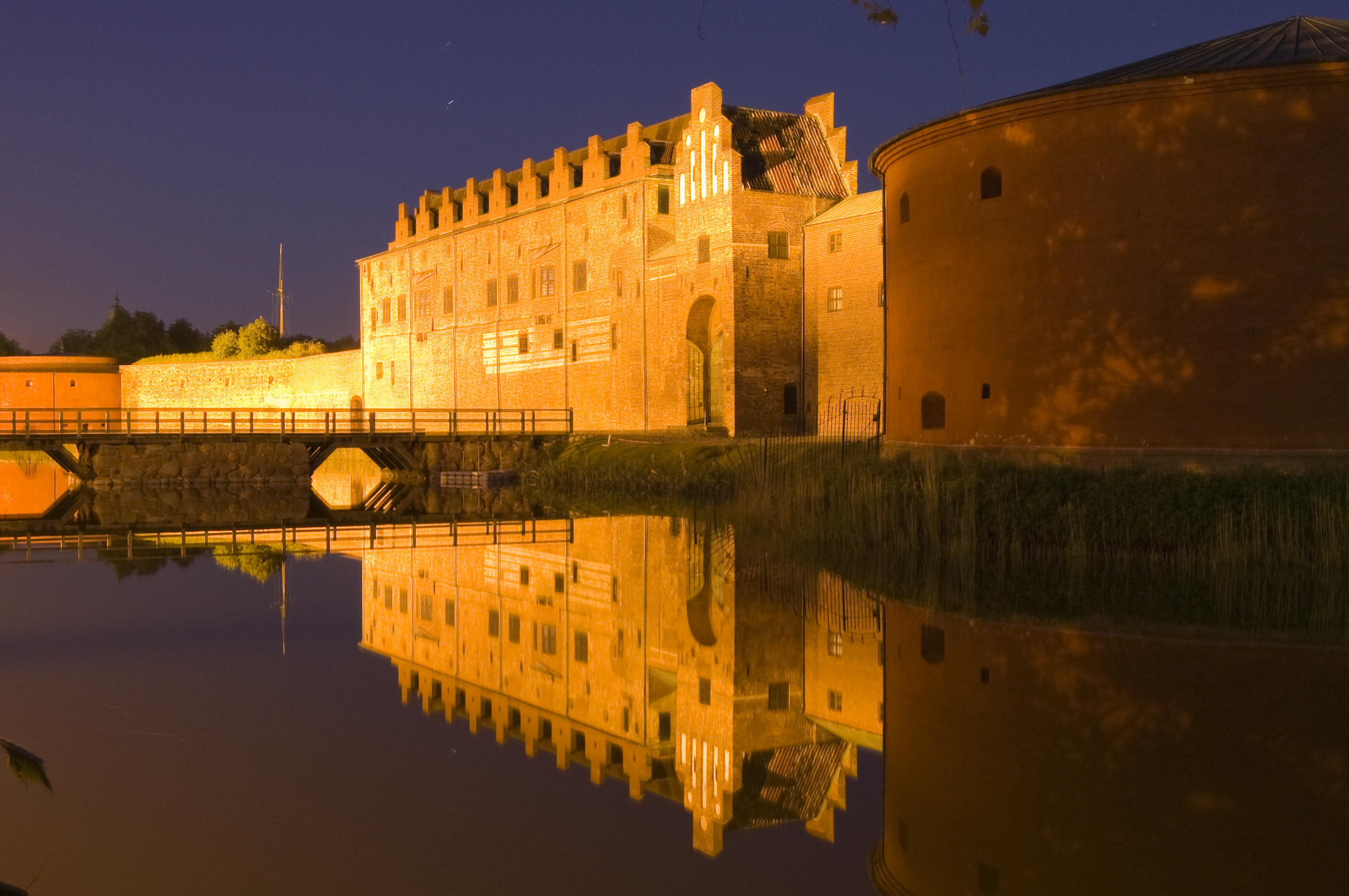 Malmö castle rebuilt by King Christian III of Denmark.